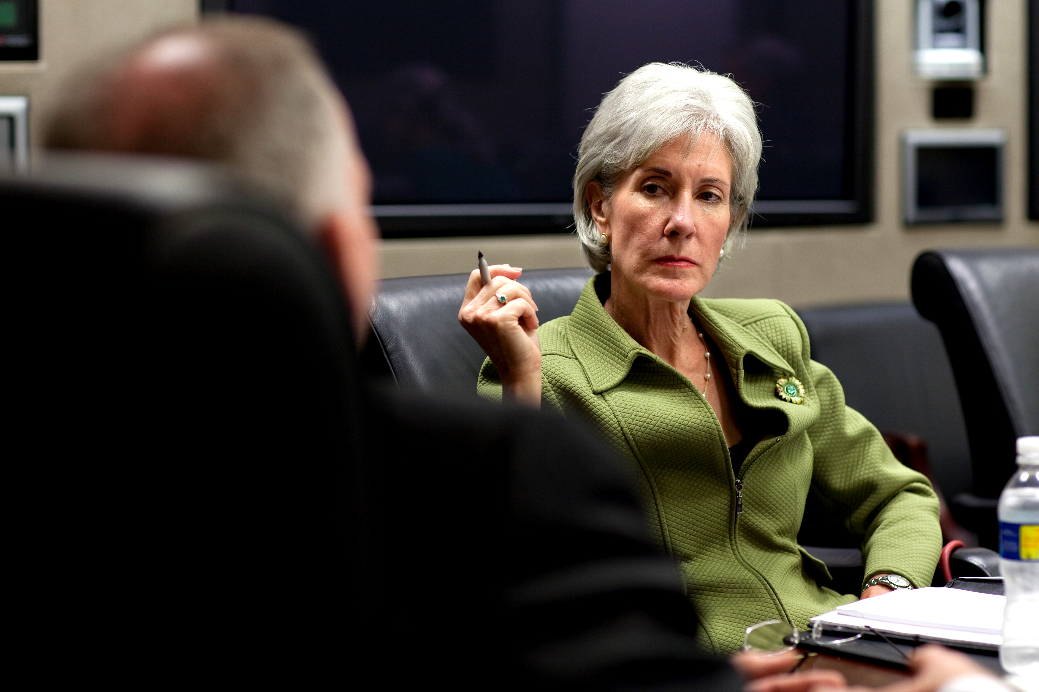 Secretary of Health and Human Services, Kathleen Sebelius, is briefed on the H1N1 flu by John Brennan, assistant to the President for Homeland Security, in the Situation Room of the White House.